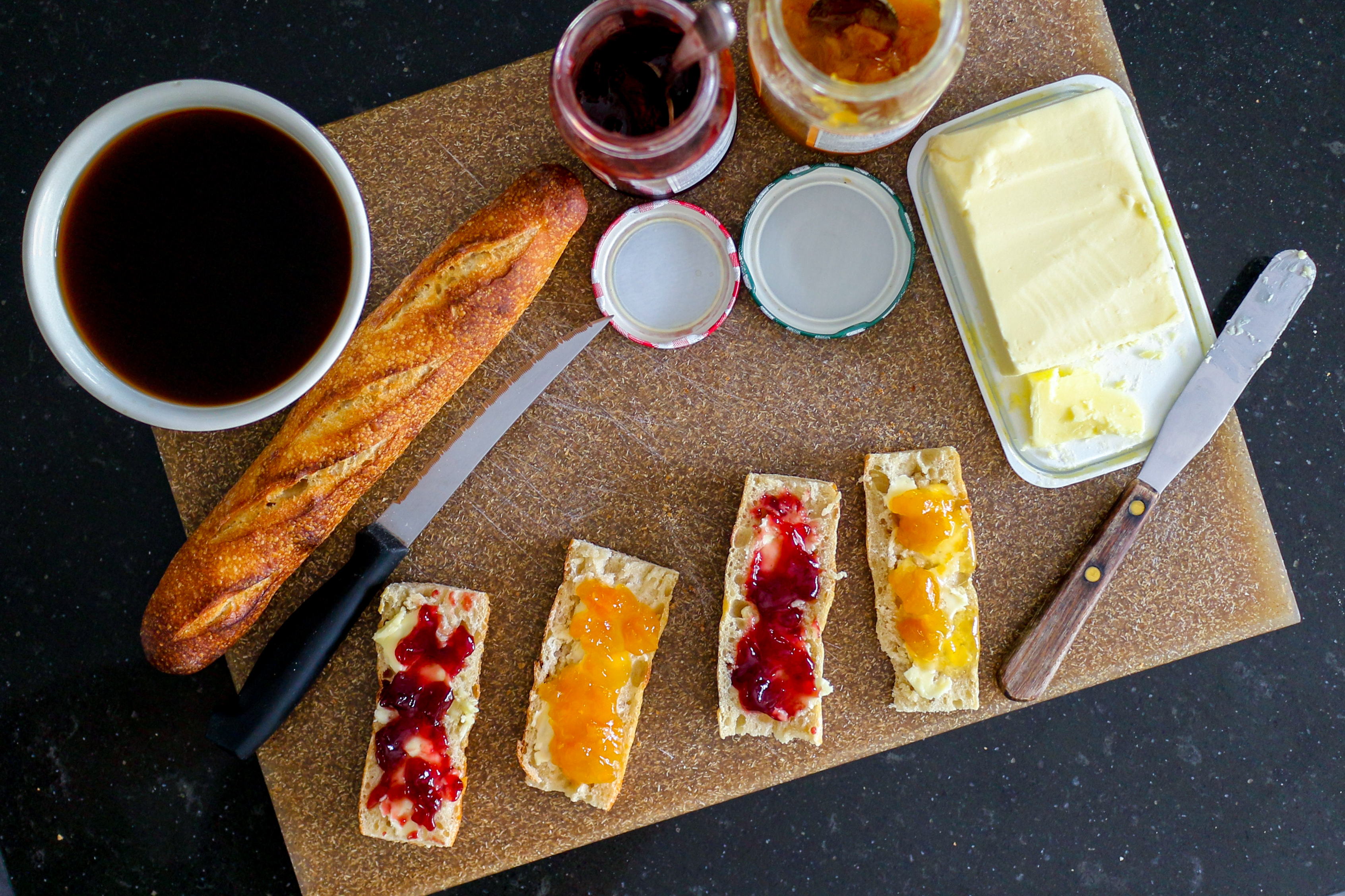 Traditional French Breakfast of tartines of butter and strawberry and apricot jams, served with a bowl of coffee